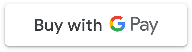 Buy with GPay button/badge used for online payment.